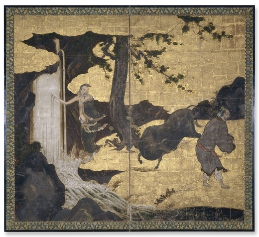 A 17th century Japanese artwork depicting hermits Hsu Yu (Xu You) and Qao Fu.